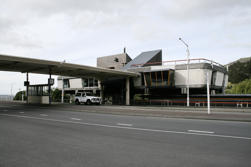 Lyttelton Tunnel Traffic Command building.